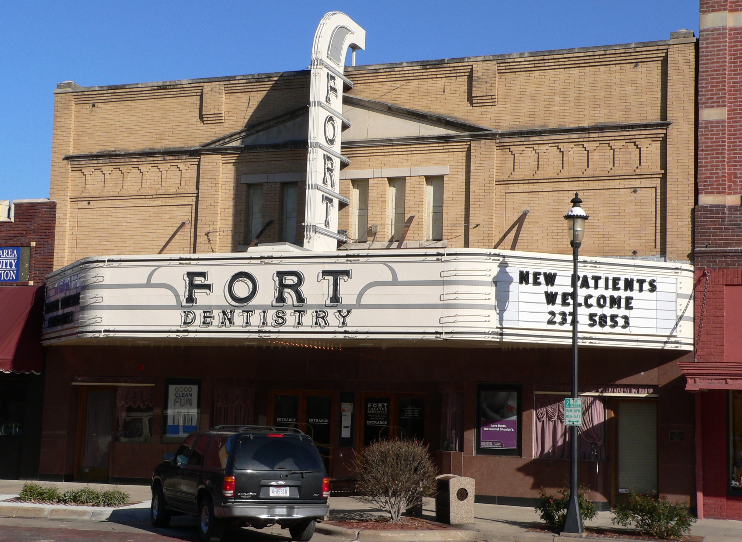 Fort Theater building at 2205 Central Ave., Kearney, Nebraska. The building was designed by architects A.B. Lake and Edward J. Sessinghaus, and was built in 1914. The architectural style is classified as Classical Revival or Moderne. The building is listed on the National Register of Historic Places. It currently houses a dental practice.